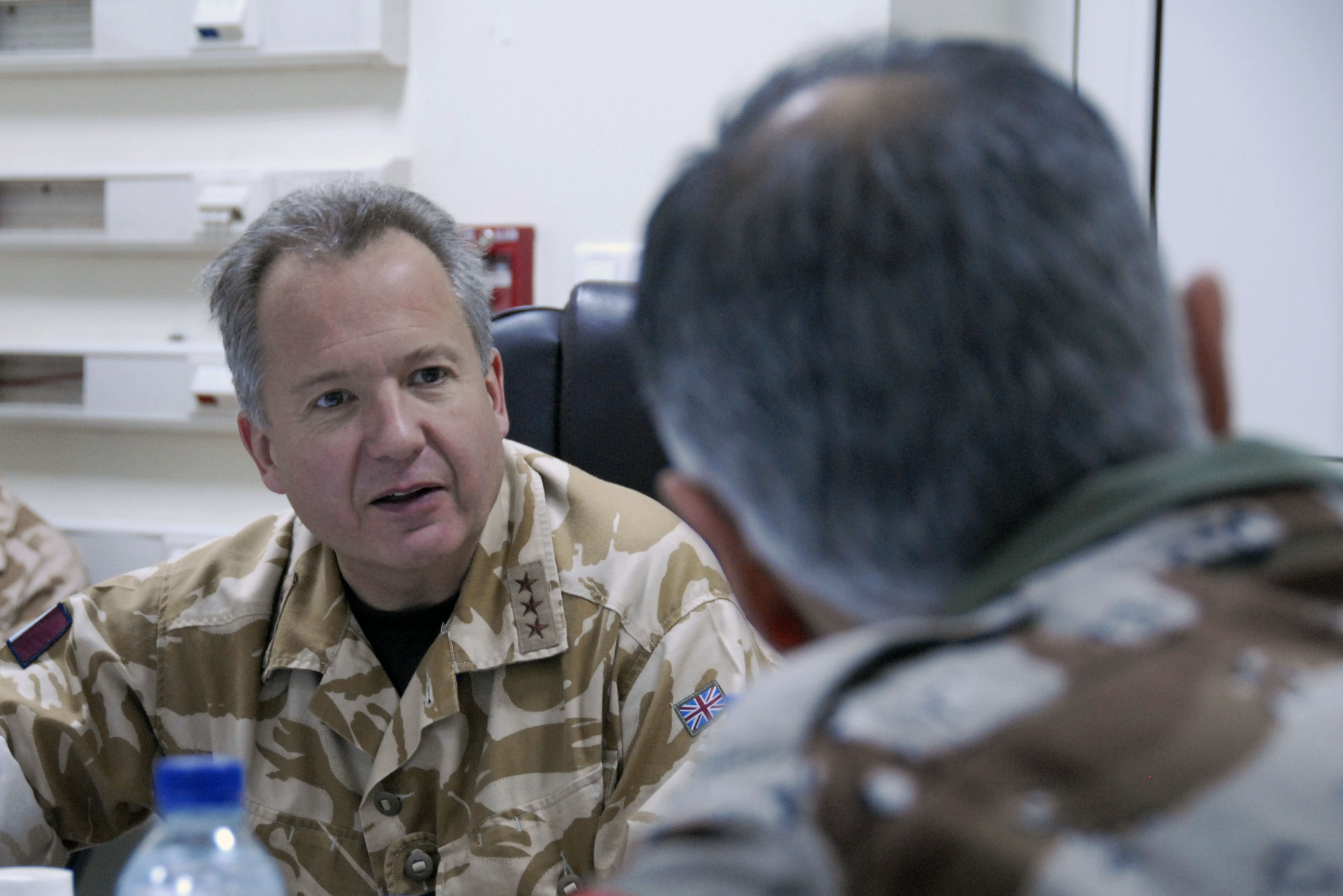 KABUL, Afghanistan -- Royal Air Force Air Marshal Christopher N. Harper, deputy commander of Joint Force Command Brunssum (left), speaks to ISAF Joint Command Chief of Staff for Stability Operations, Spanish Brig. Gen. Alberto Corres during a briefing at International Security Assistance Force Joint Command Nov.26. The two met today during Harper’s visit and discussed key issues regarding NATO’s International Security Assistance Force mission in Afghanistan. (ISAF Joint Command photo by U. S. Air Force Master Sgt. Matthew Millson)